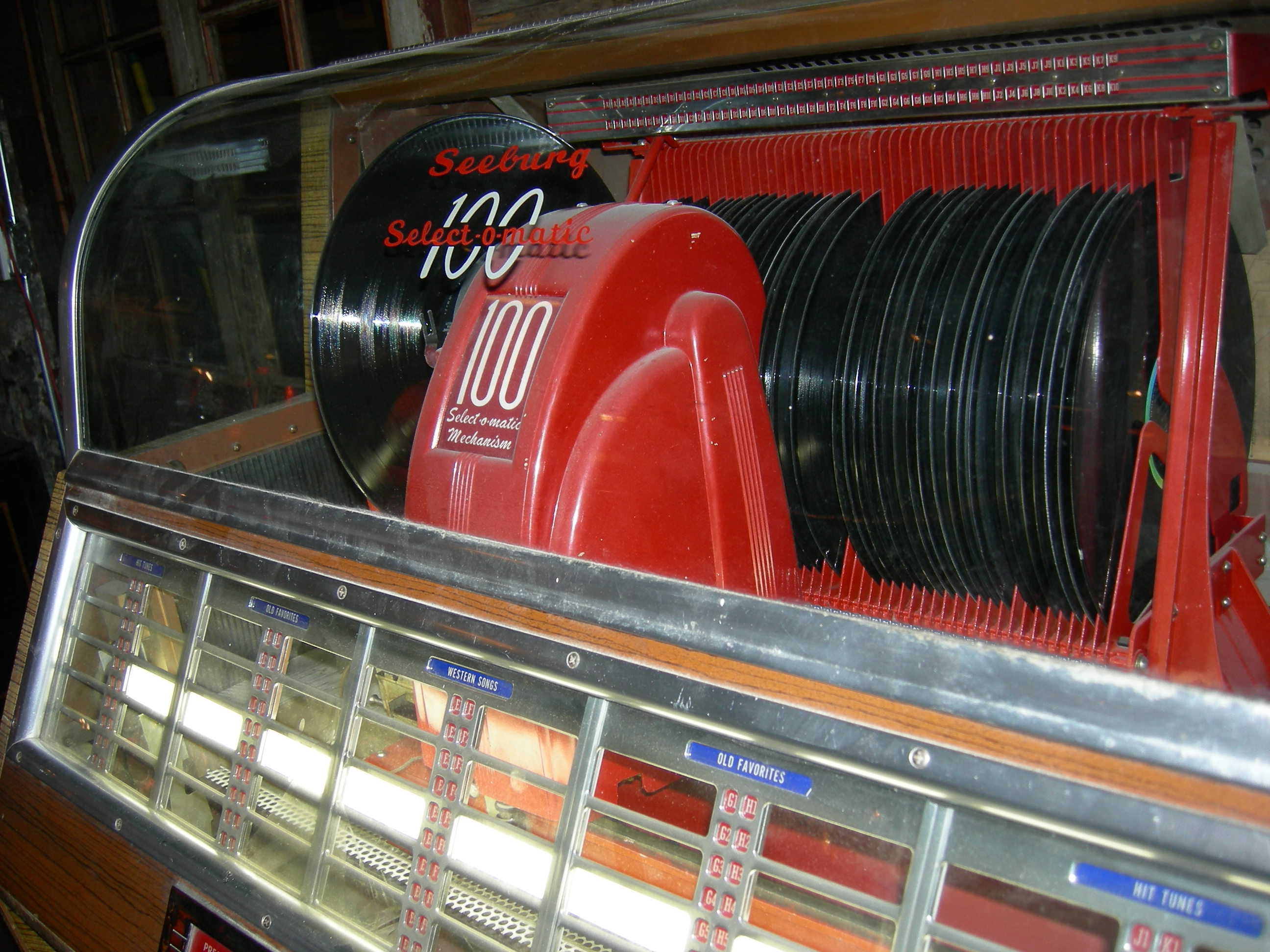 Detail, Seeburg Selecto-o-matic jukebox at "The Stables" behind Full Throttle Bottles, Georgetown, Seattle, Washington. This handles up to 100 LPs and presumably dates from the 1950s.